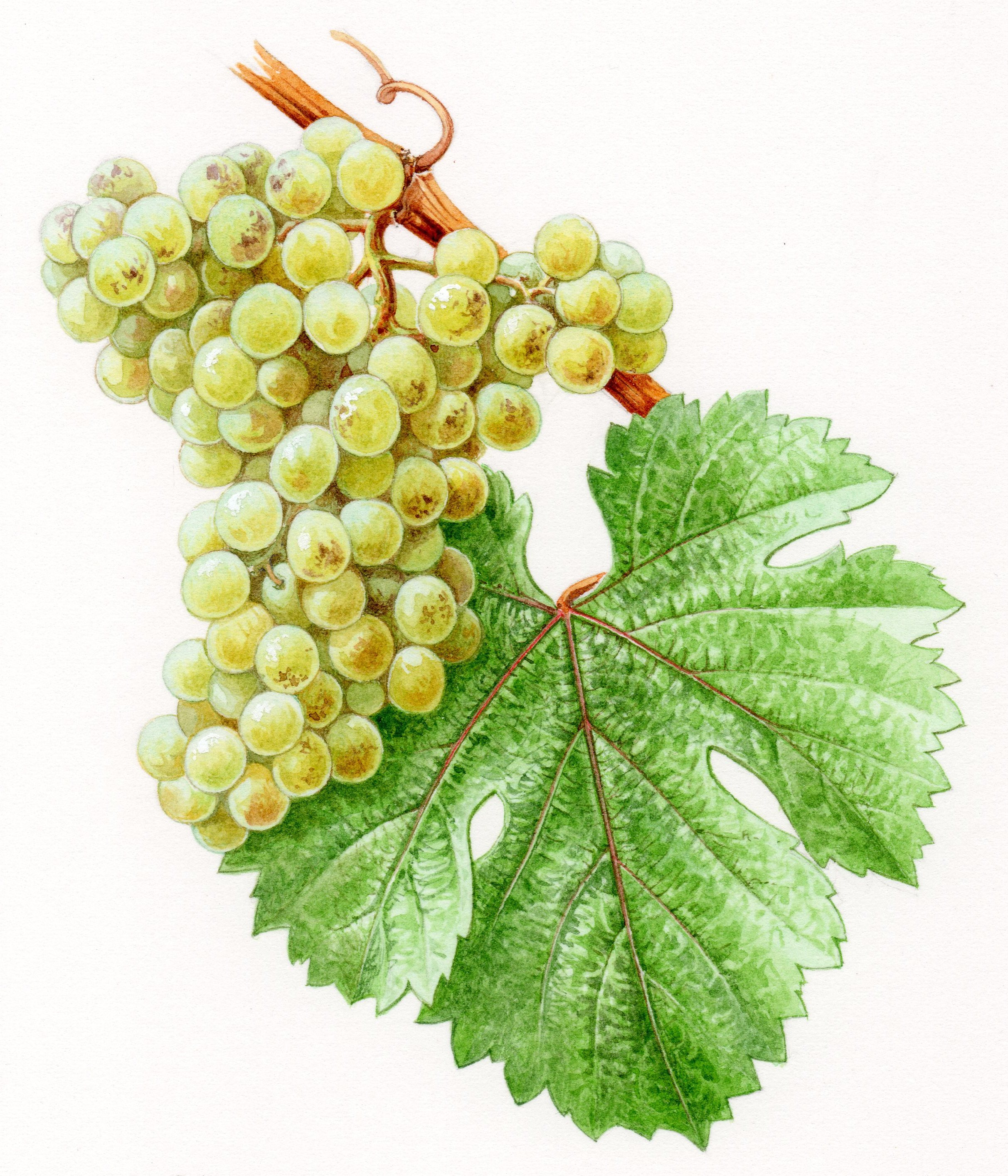 Aquarelle originale, série des cépages français